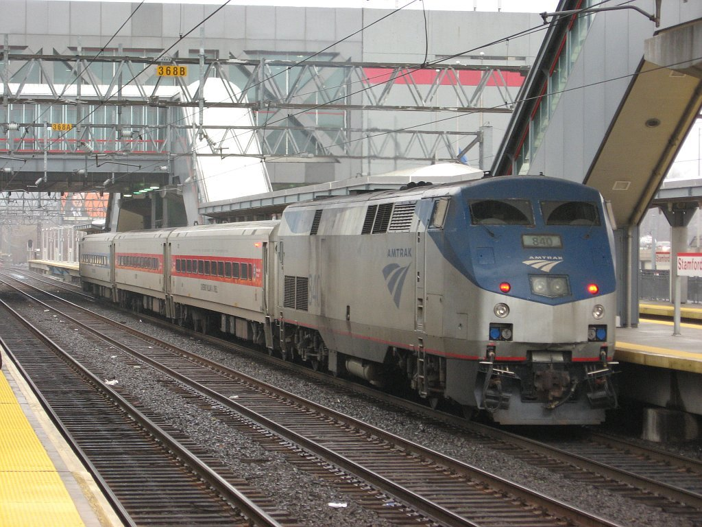 P40DC #840 pushing a Shore Line East train in Stamford, Connecticut.